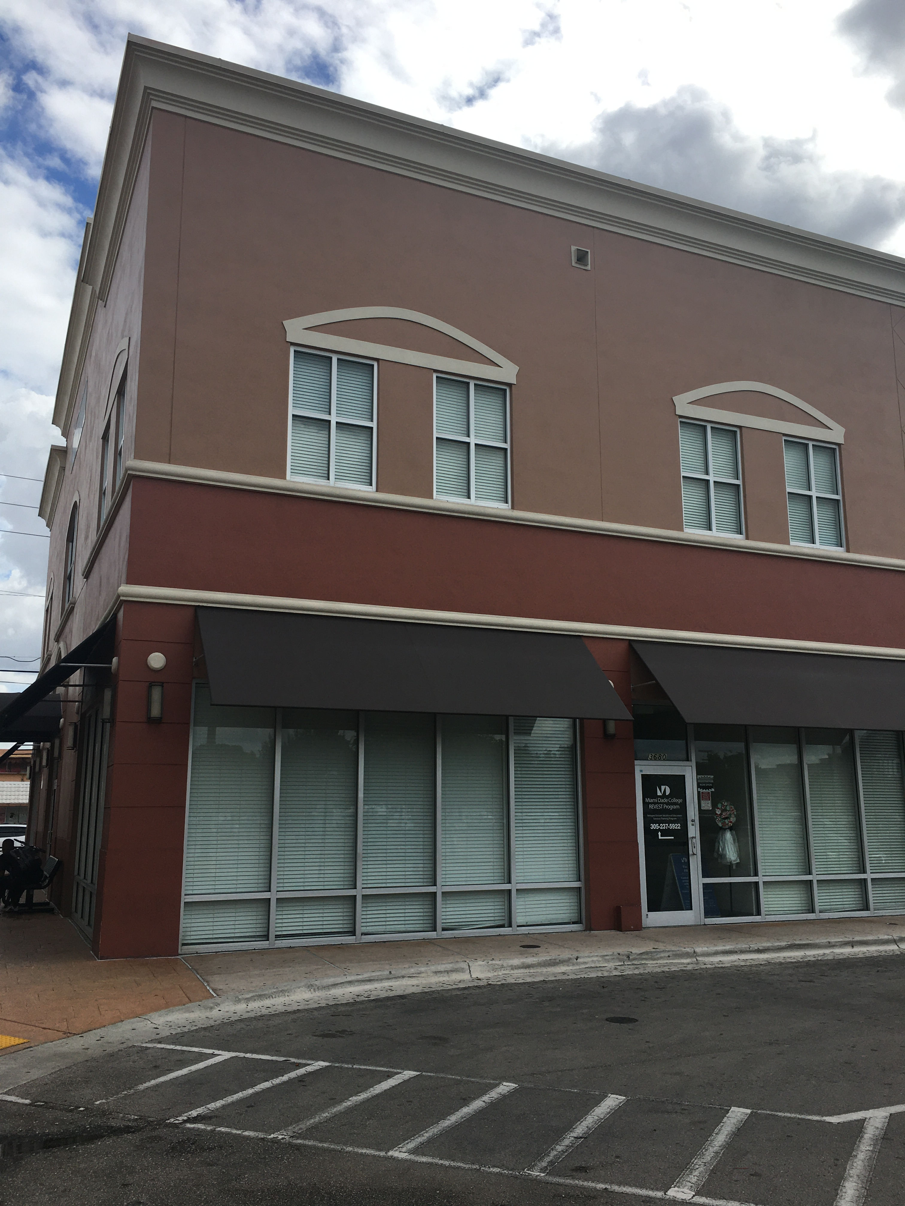 Building housing REVEST Program